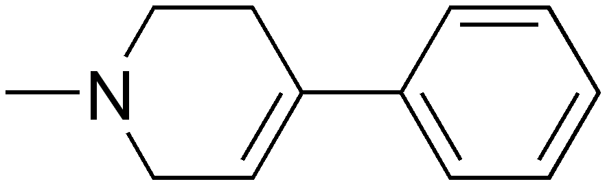 chemical structure of 1-methyl-4-phenyl-3,6-dihydro-2H-pyridine (MPTP)